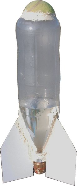 By Matthias Busl, my water rocket. More at Gude kiesel